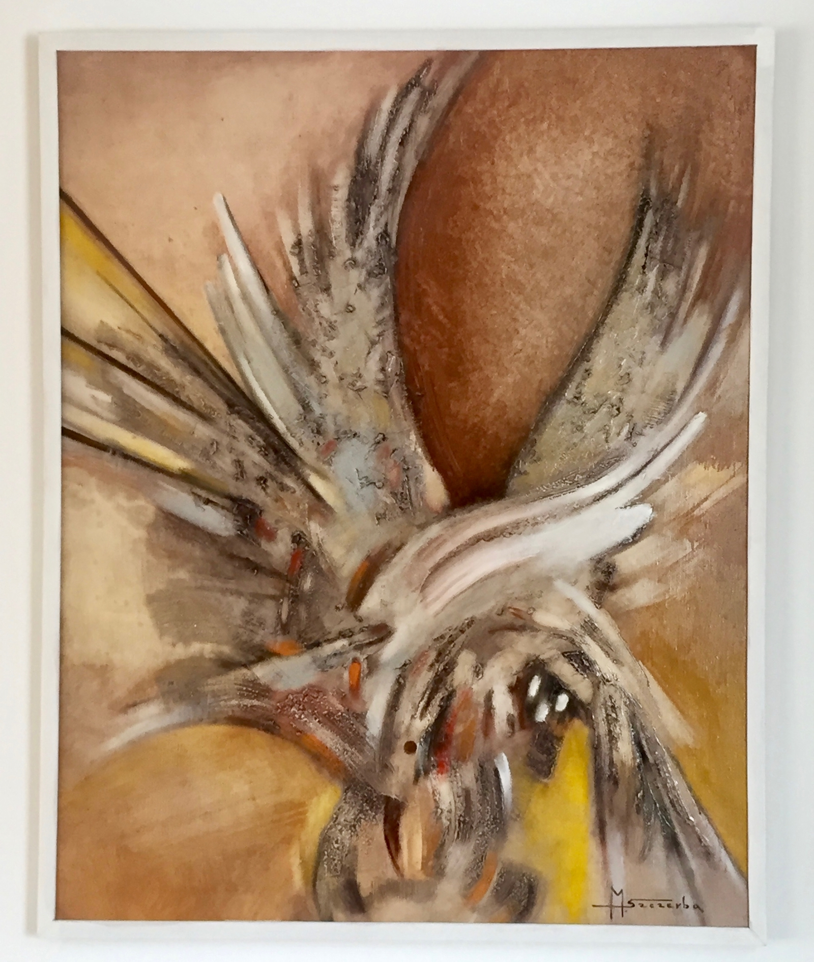 Marian Szczerba "Birds arrangement" (1990)